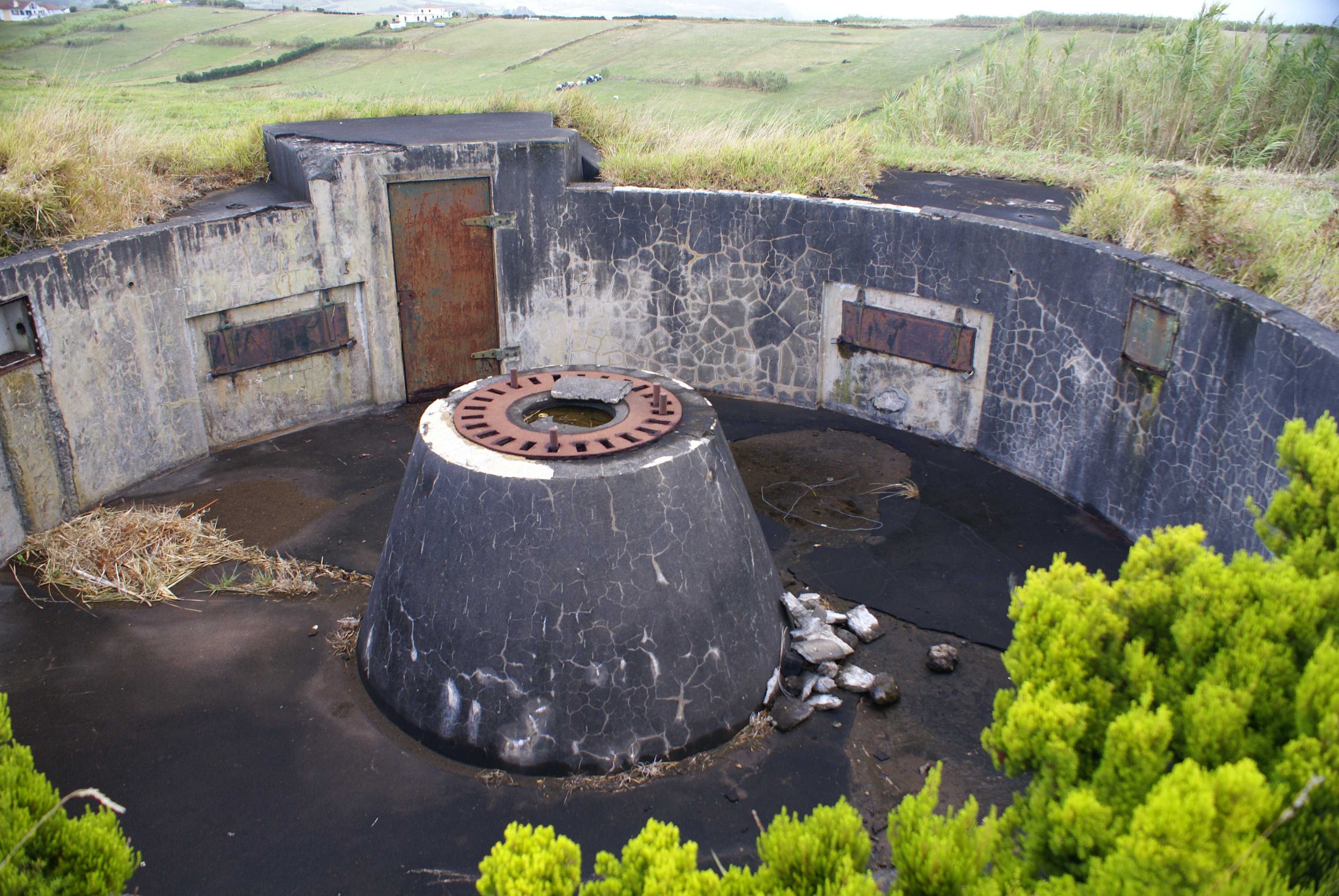 Posição militar da Ponta da Espalamaca, aspectos, concelho da Horta, ilha do Faial, Açores, Portugal